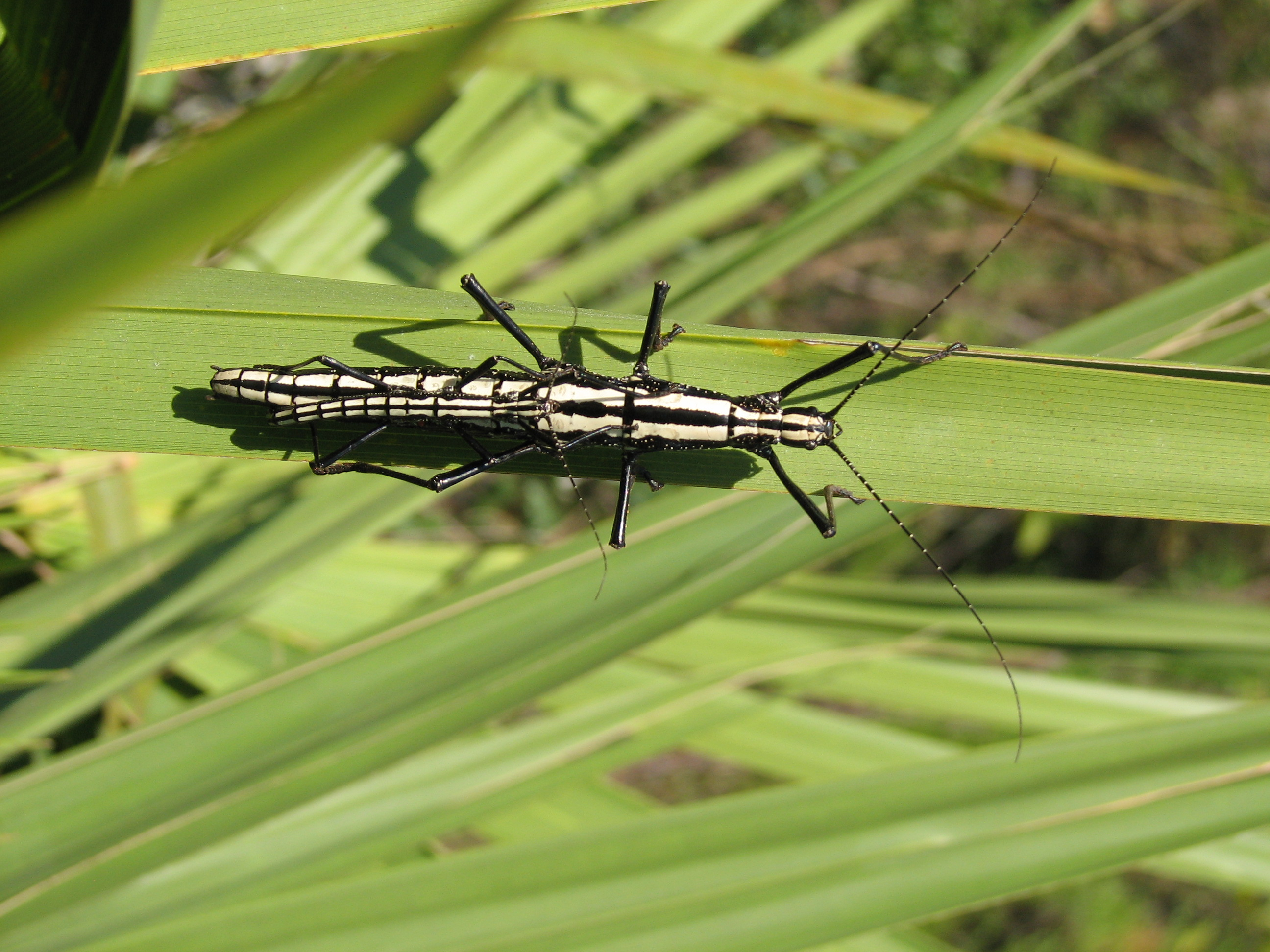 White color form of Anisomorpha buprestoides. Photo taken at Ocala National Forest, Florida, USA (81 deg, 3 min, 0 sec N; 81 deg, 38 min, 50 sec W) on October 1, 2006.